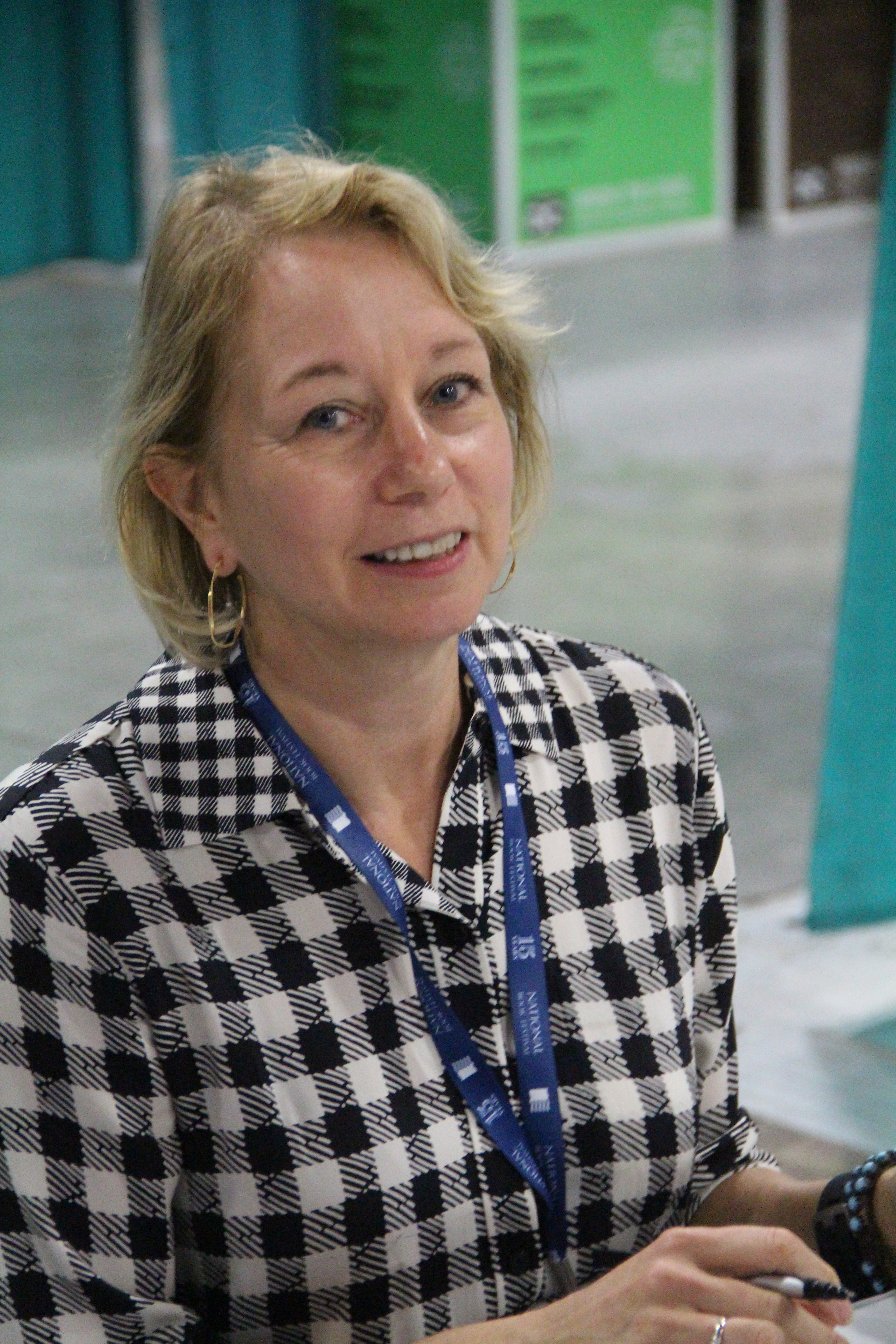 2015 Library of Congress National Book Festival September 5, 2015 Washington, DC